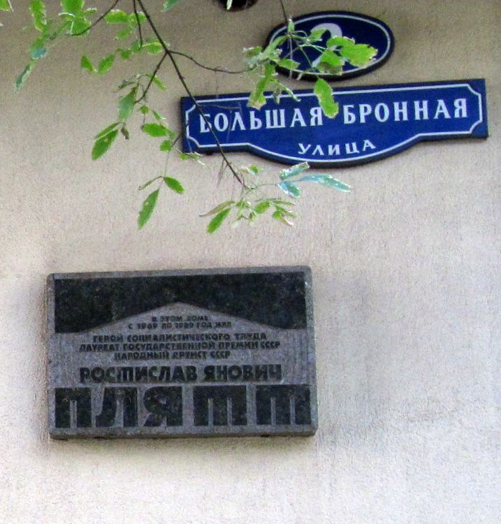 Commemorative Plaque at the house in which lived a famous Soviet actor, Rostislav Yanovich Plyatt. Moscow, B. Bronnaya, 2